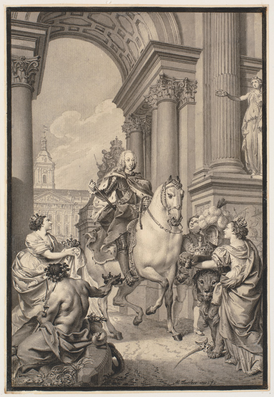 King Christian VI is hailed by Denmark and Norway. Drawing for a large oil painting that burned 1794 with Christiansborg Palace. Ca. 1748. Pencil, pen, black ink, brush, grey wash, black framing. 232x158 mm. The Royal Collection of Graphic Art.